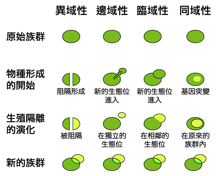 Geographic illustration of SPATIAL ASPECTS OF SPECIATION: allopatric speciation - physical barrier divides population peripatric speciation - small founding population enters isolated niche parapatric speciation - new niche found adjacent to original one sympatric speciation - speciation occurs without physical separation Drawn in Inkscape by Ilmari Karonen, based on Image:Speciation modes.png and from Tanslated into Chinese by Mike.